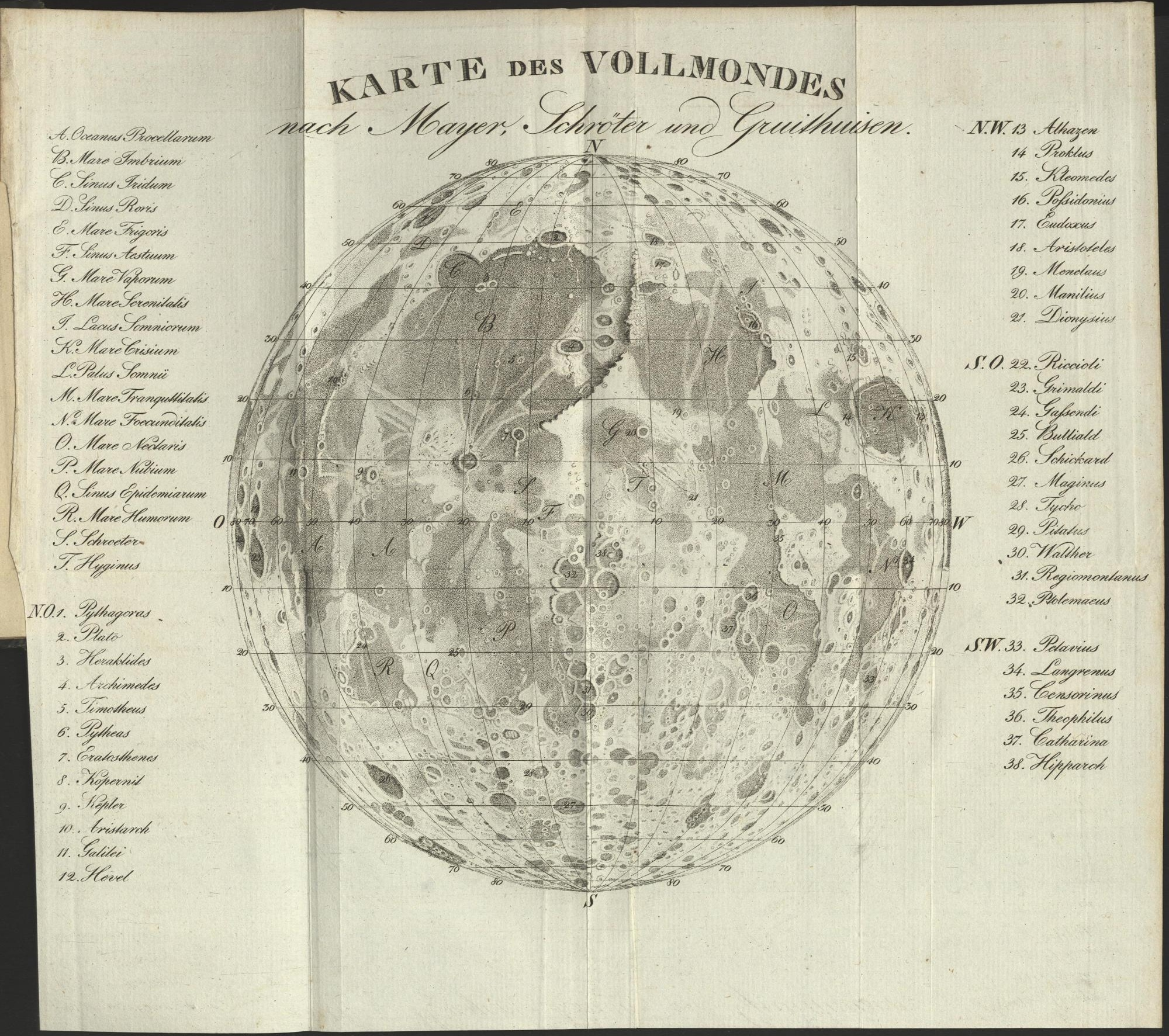 Map of the Moon extracted of the book Popular astronomy published in Braunschweig, Confederation of the Rhine, by ML Frankheim in 1829.